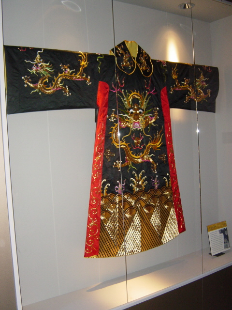 A replica of a Qing Dynasty dragon robe (A theatrical robe used in the Peking Opera). Dragon Robe or Longpao (龍袍) in Mandarin is the robe worn only by the emperors of China. In the Qing Dynasty black is used in many royalty & government robes. However in many other Chinese dynasties, a dragon robe is often in golden yellow color. In fact, the Chinese term yellow robe (黃袍) often refers to the imperial robe. This picture was taken in July 2004 from an exhibition at Chabot Space & Science Center in Oakland, California.